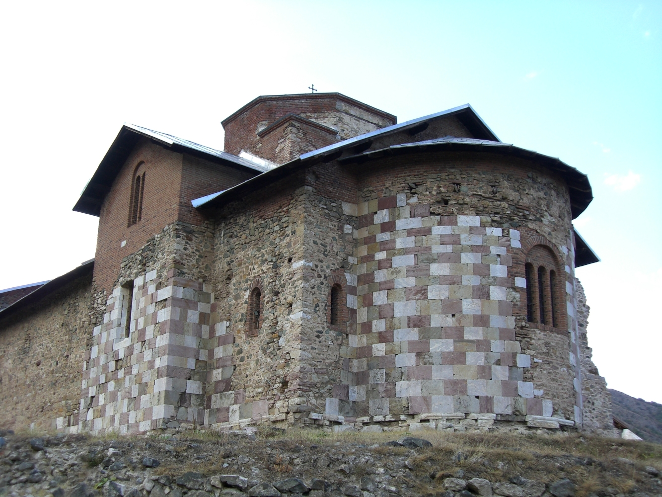 Banjska Monastery, view on the church from behind